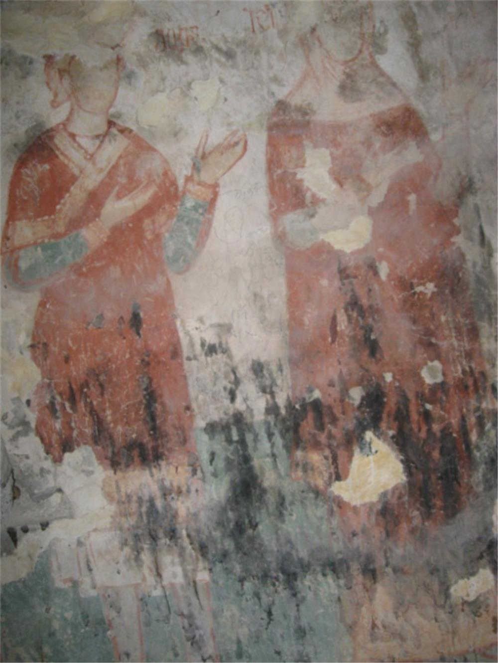 Fresco of Shota and Ia from the Kvabiskhevi church of the Dormition, Borjomi Municipality, Georgia.